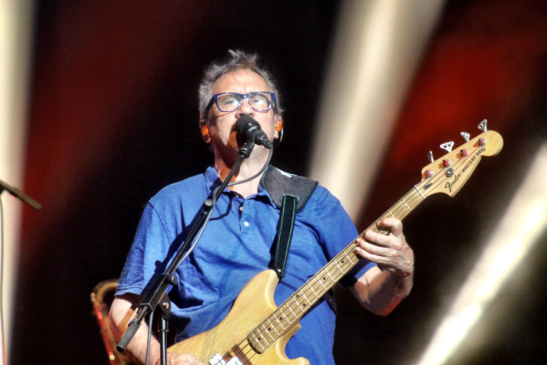 Enanitos Verdes & Hombres G ::: Paramount Theater ::: 06.12.19